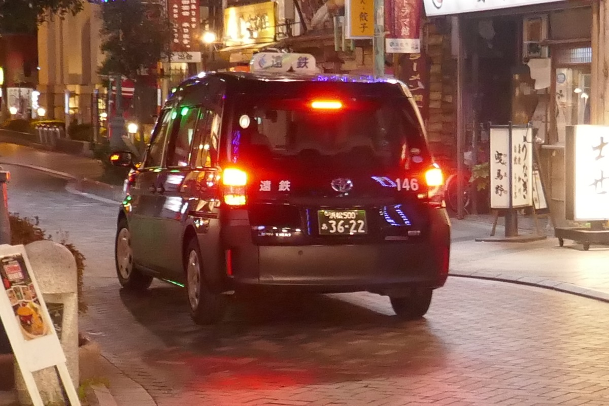 The JPN TAXI at Hamamatsu